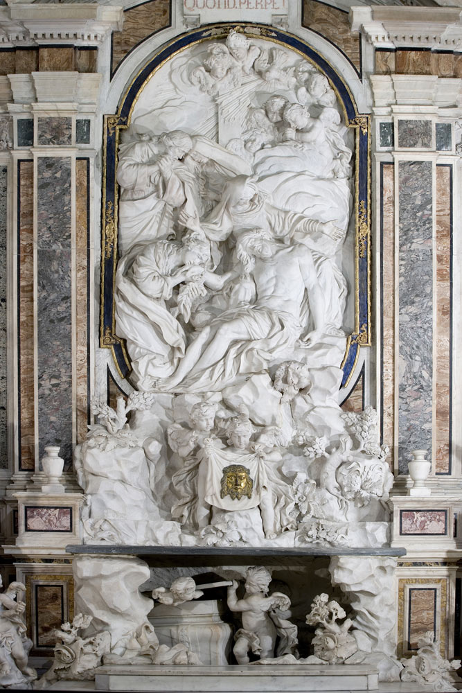 Altare maggiore, Cappella Sansevero